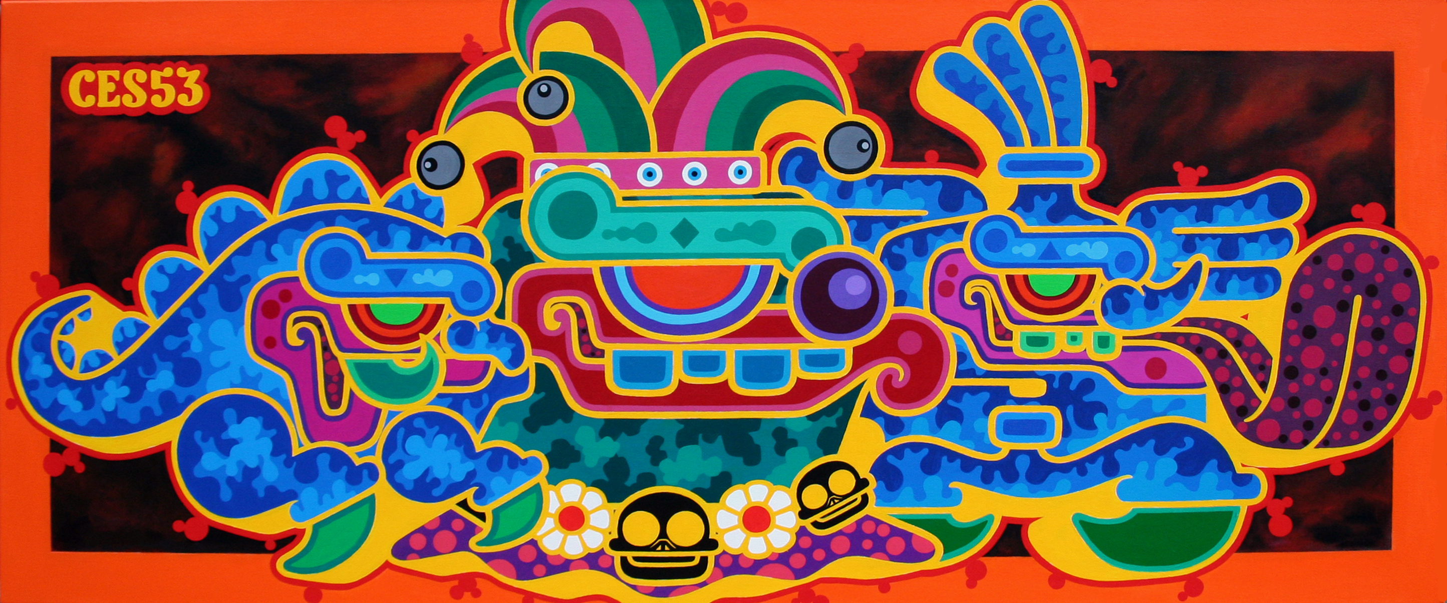 "COMEBACK OF THE CHAVIN MINDED FUNNY ONE" 180 by 75 cm,acrylic paint on canvas.By contemporary artist Ces53.